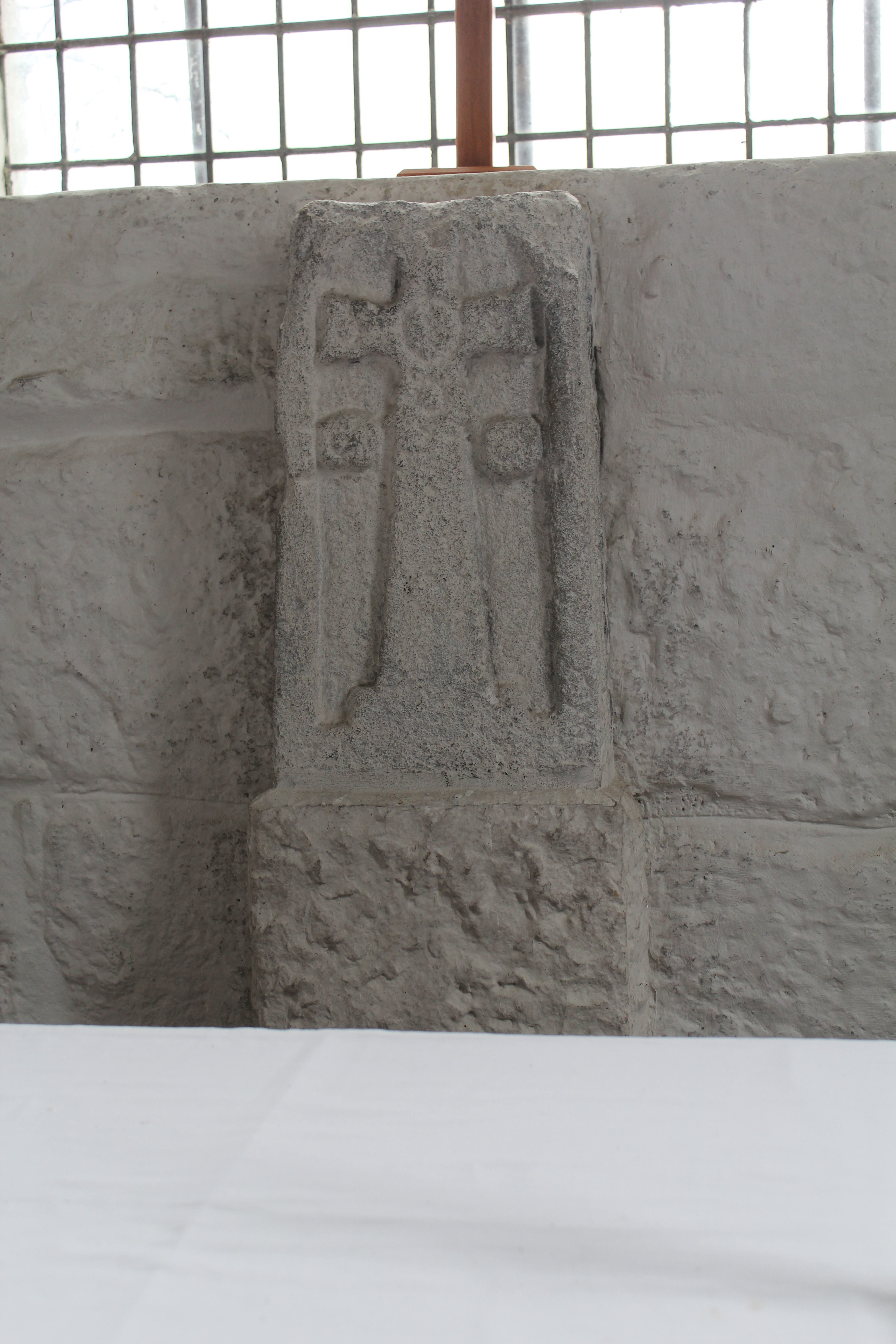 Stone cross behind the altar in the Anglo-Saxon church at Escomb, County Durham